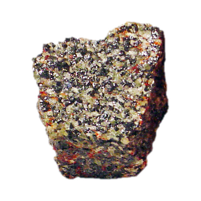 These mineral images are free to use how you wish.